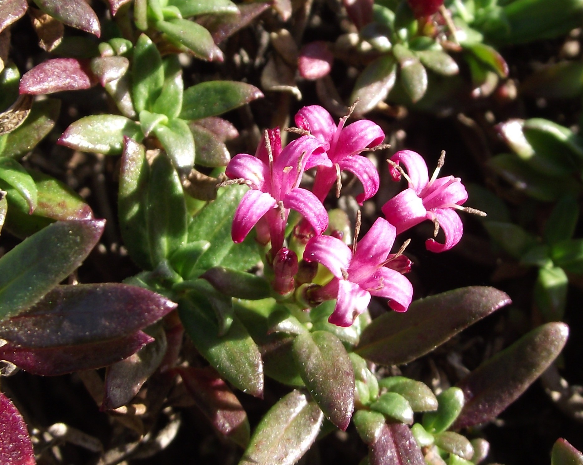 Putoria calabrica in the UC Botanical Garden, Berkeley, California, USA. Identified by sign.